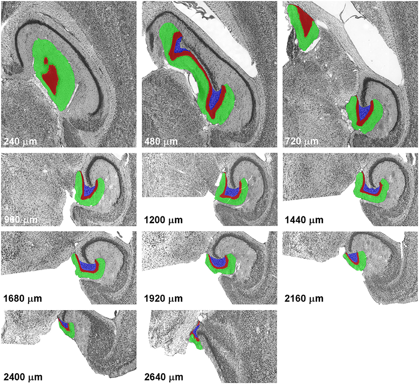 Illustrations represent a complete sample of every 12th section of a horizontal series passing through the mouse dentate gyrus from dorsal to ventral.